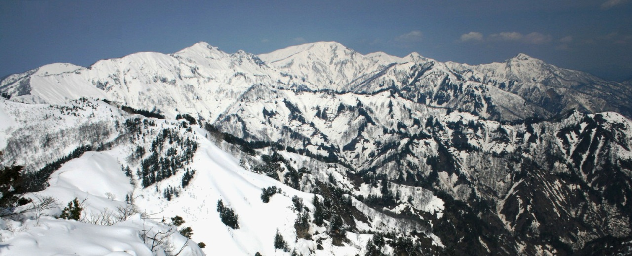 Mount Oizuru and Ogasayama_from_Sanpoiwadake_2010-4-18